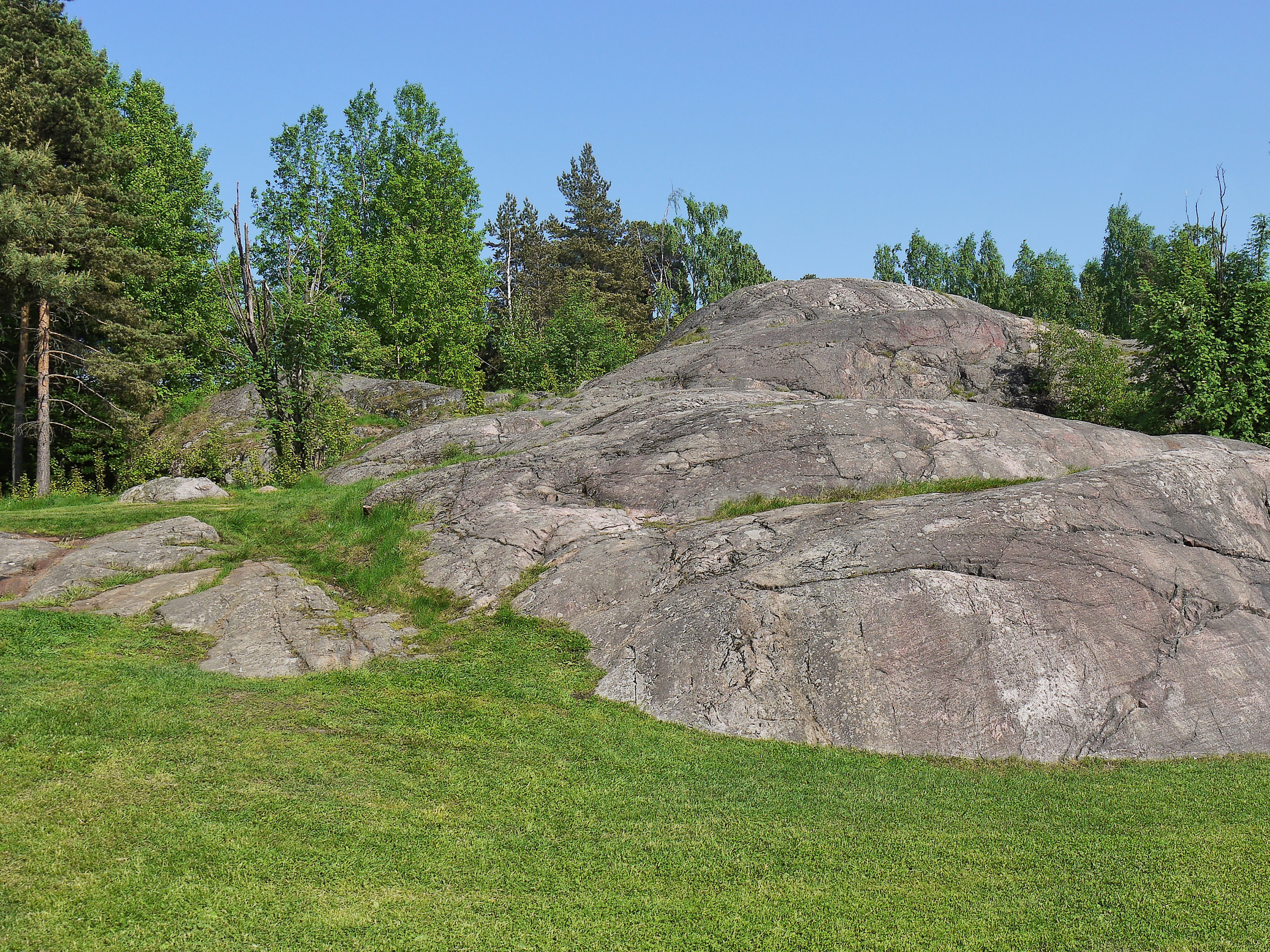 Granodiorite of the Fennoscandian Shield, Mäntymäki in Helsinki, Finland.